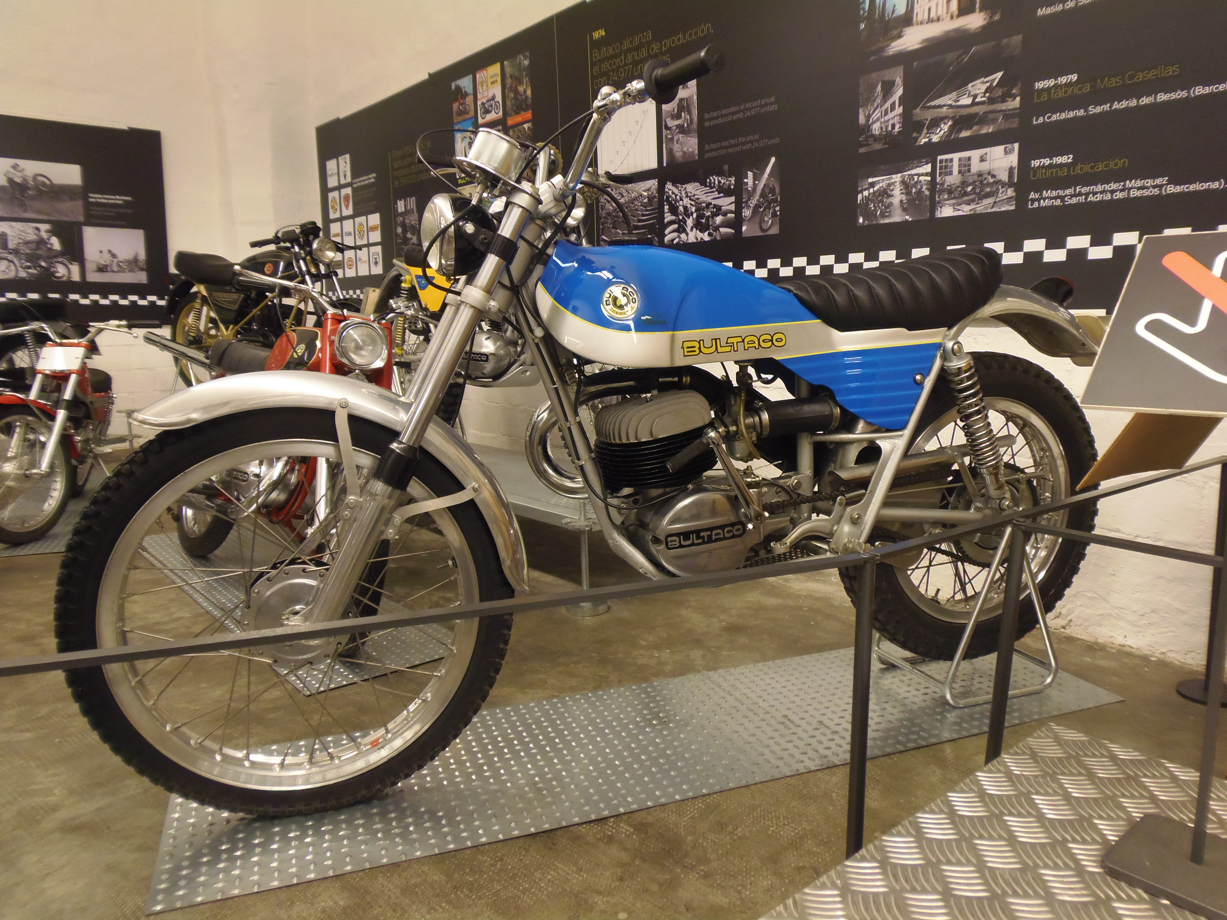 Bultaco Alpina, 250 cc, 1971